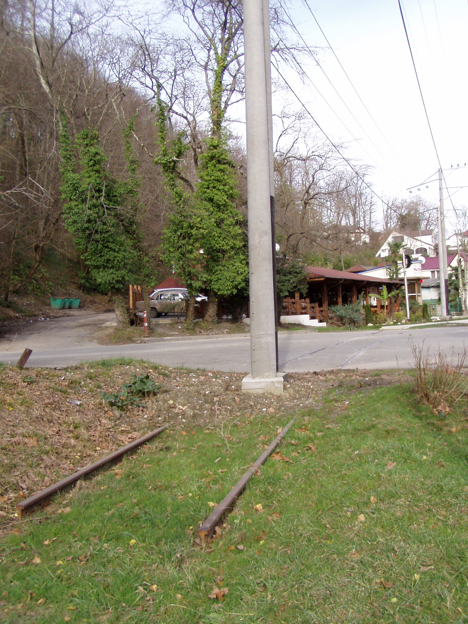 Matsestinskaya former railways' signal, Sochi, Russia